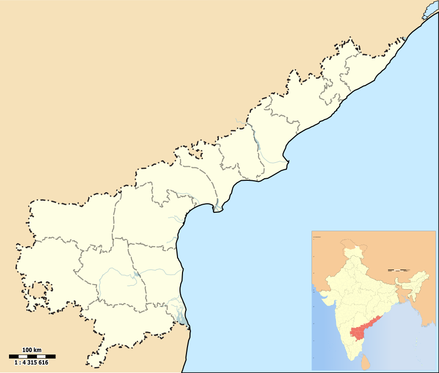 Location map of Andhra Pradesh. Coordinates: top=19.957, bottom=12.522, left=76.593, right=84.935.